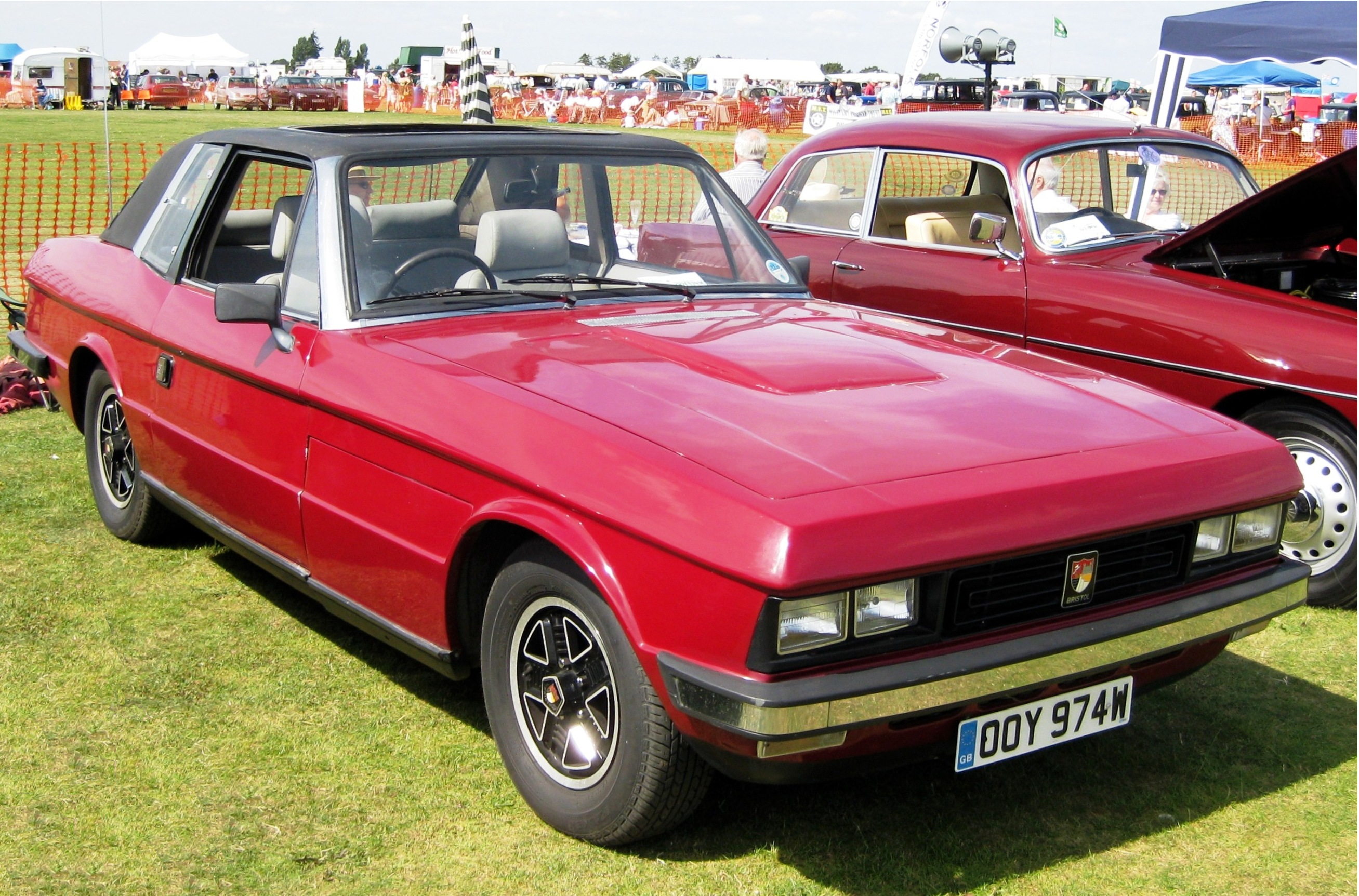 Bristol 412. First registered November 1980.